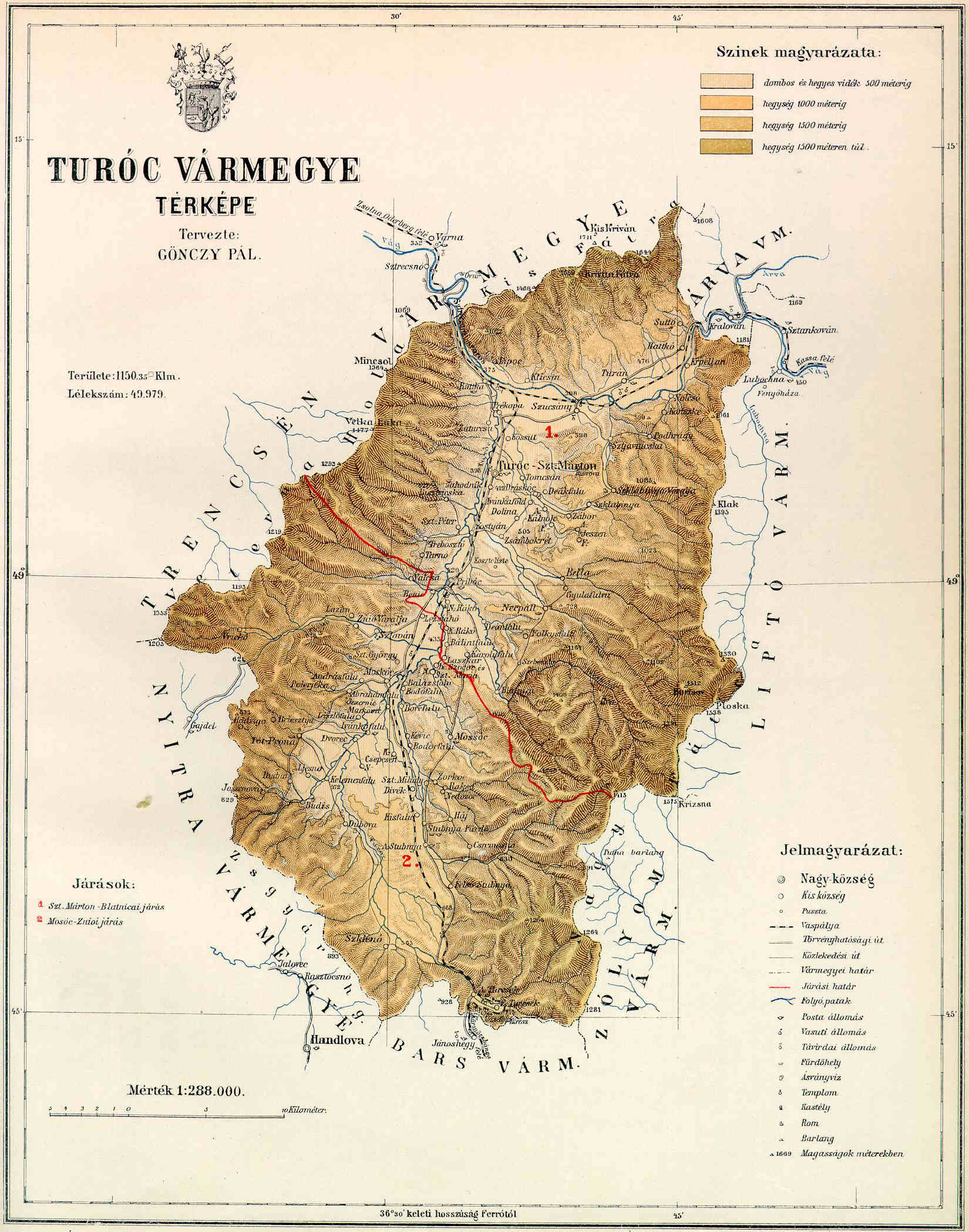 County of Turóc in the pre-Trianon Kingdom of Hungary. Komitat Turóc w Królestwie Węgier przed traktatem w Trianon.